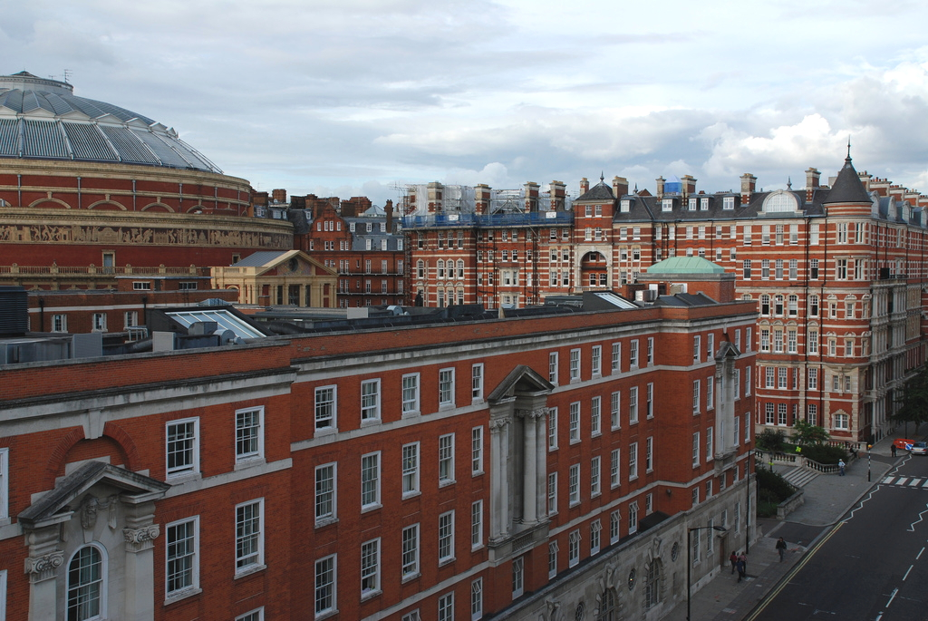 The Beit building of Imperial College in Albertopolis. The building at the back (left) with the frieze is Royal Albert Hall (not part of the College) and the building on the right is Albert Court, a private residential apartment block, separate from the Beit hall by a small park (the staircase leading to it is visible on bottom-right of photo) that reaches Royal Albert Hall.